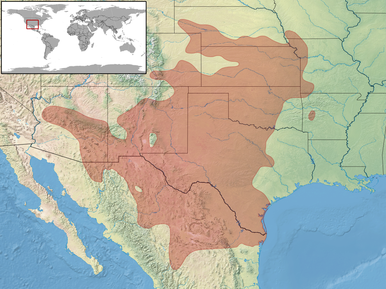 geographic distribution of Plestiodon obsoletus